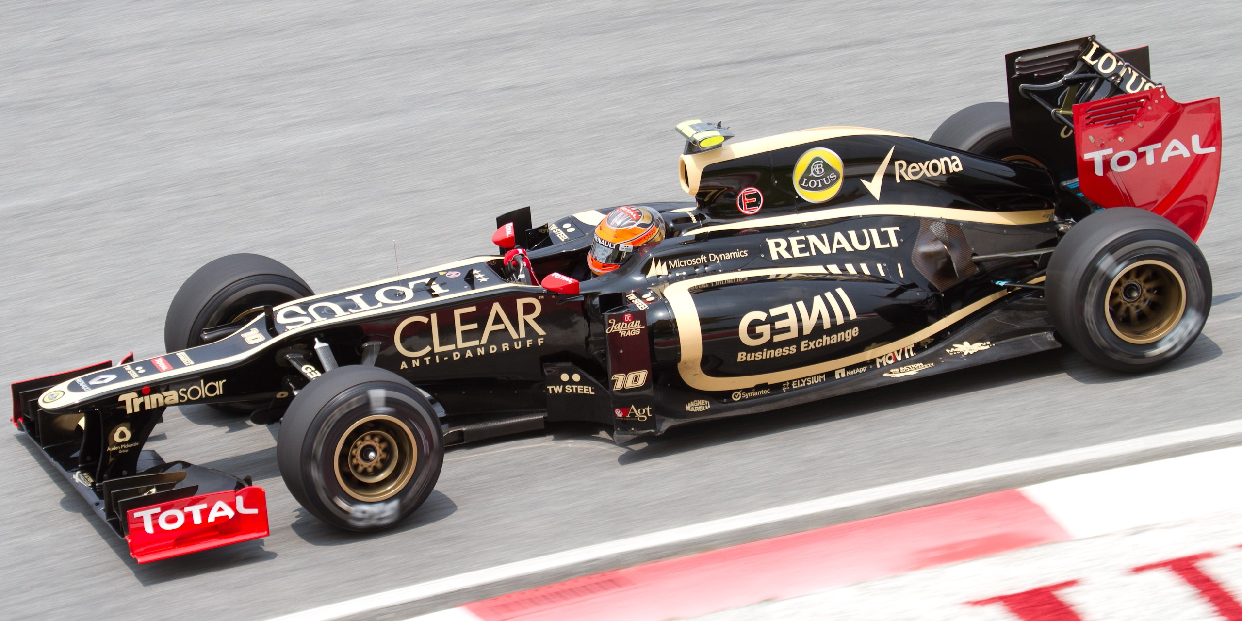 Formula One 2012 Rd.2 Malaysian GP: Romain Grosjean (Lotus) during the second practice session on Friday.